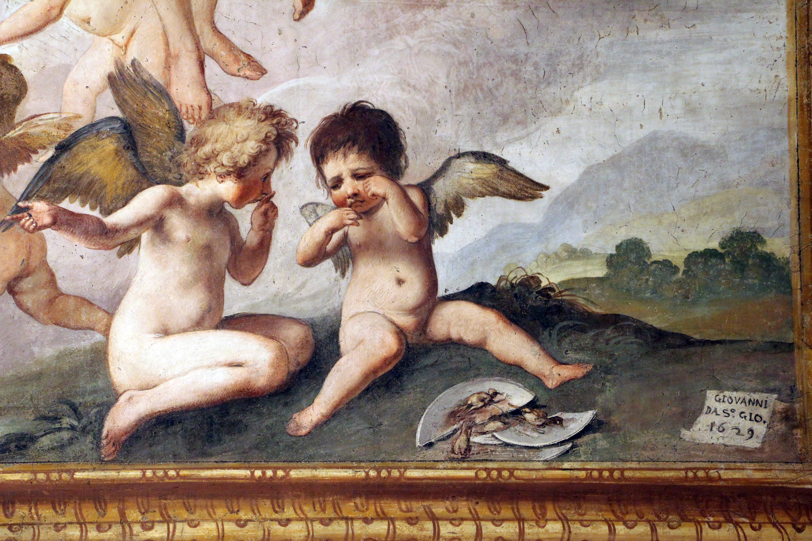 Christ nourished by Angels and Saints by Giovanni da San Giovanni